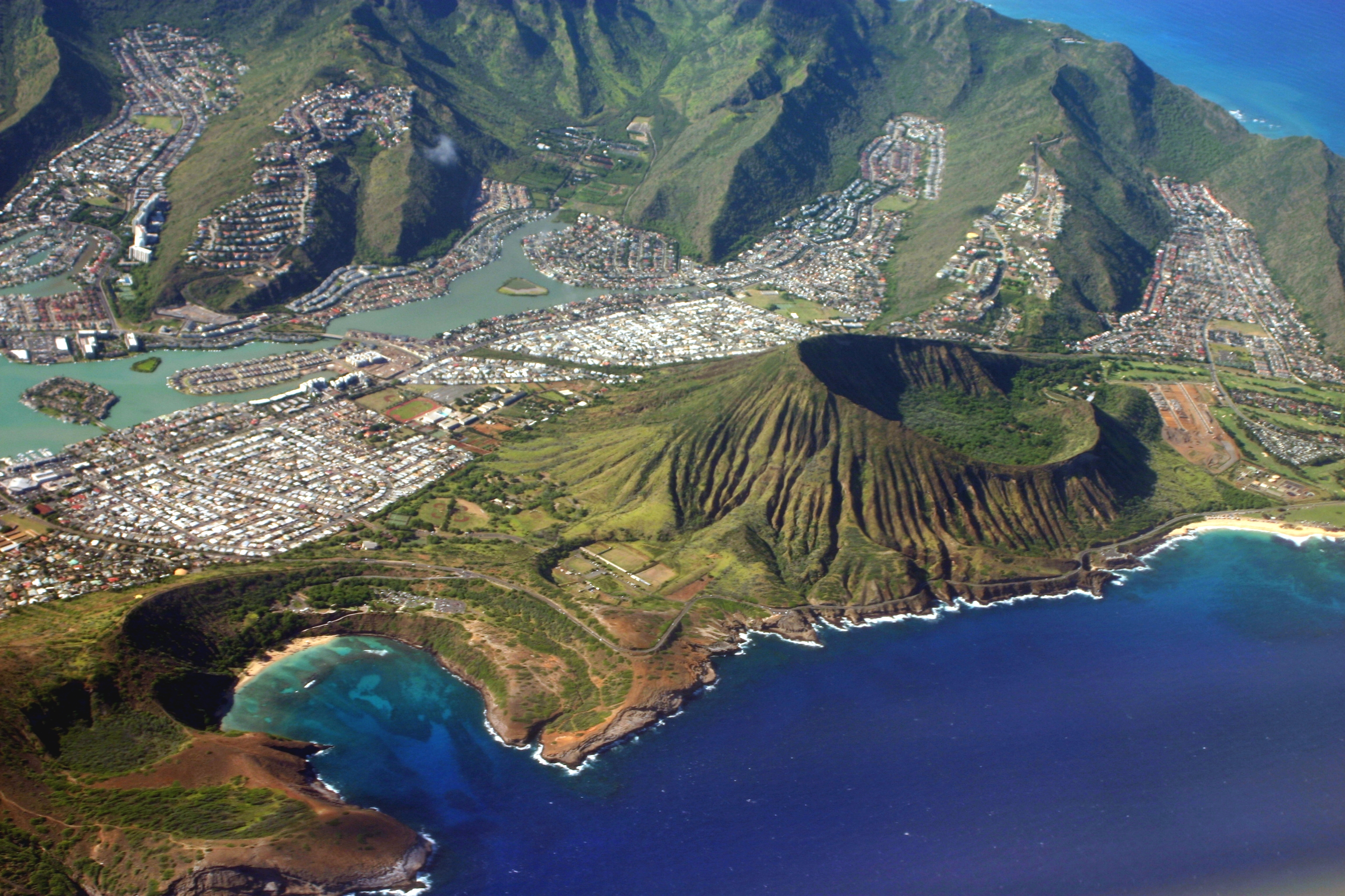 Oahu from the air. Photograped by Brocken Inaglory in September of 2004.